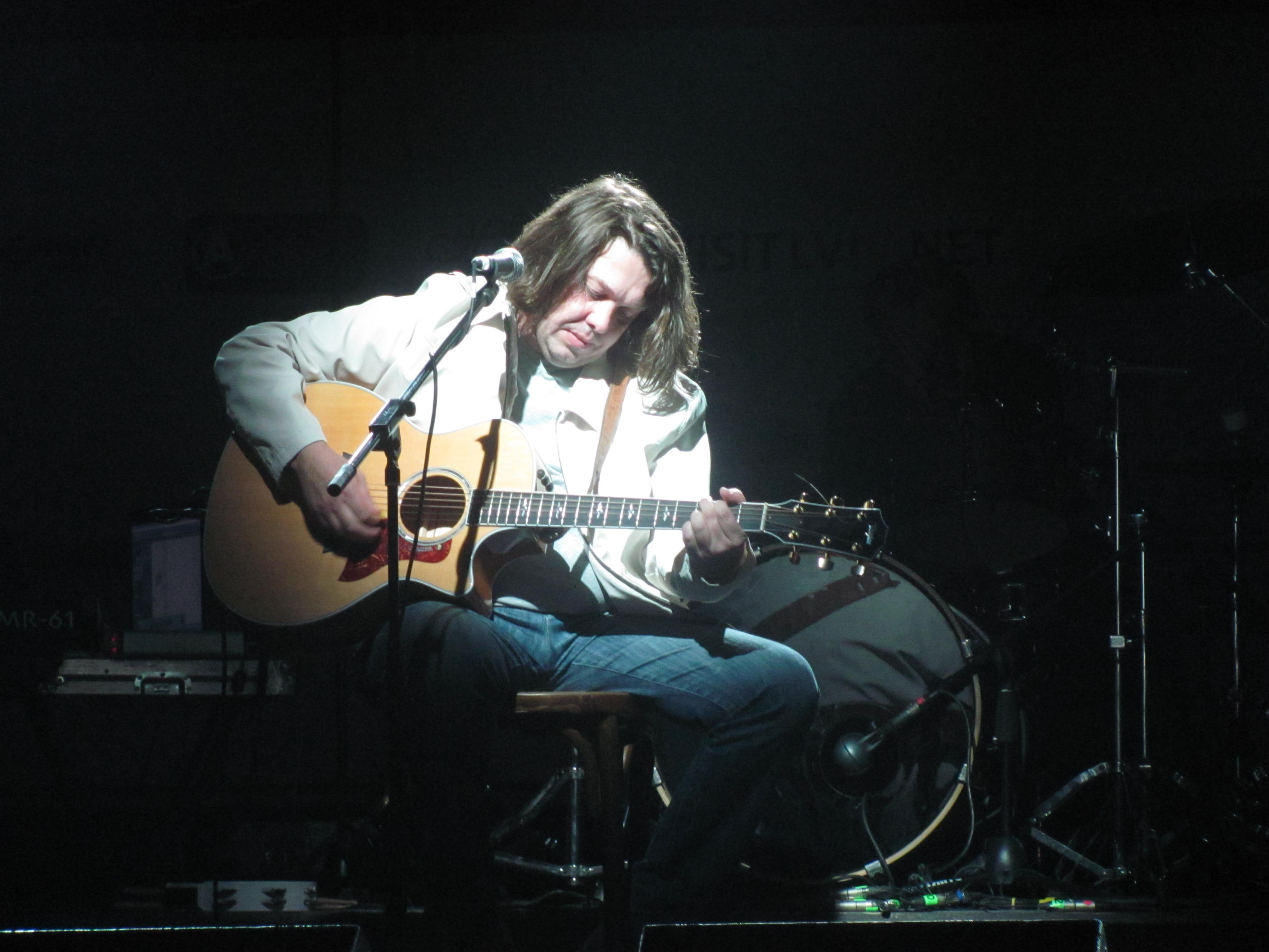 Taras Čubaj performs in the palace "Ukrajina" in Lviv.